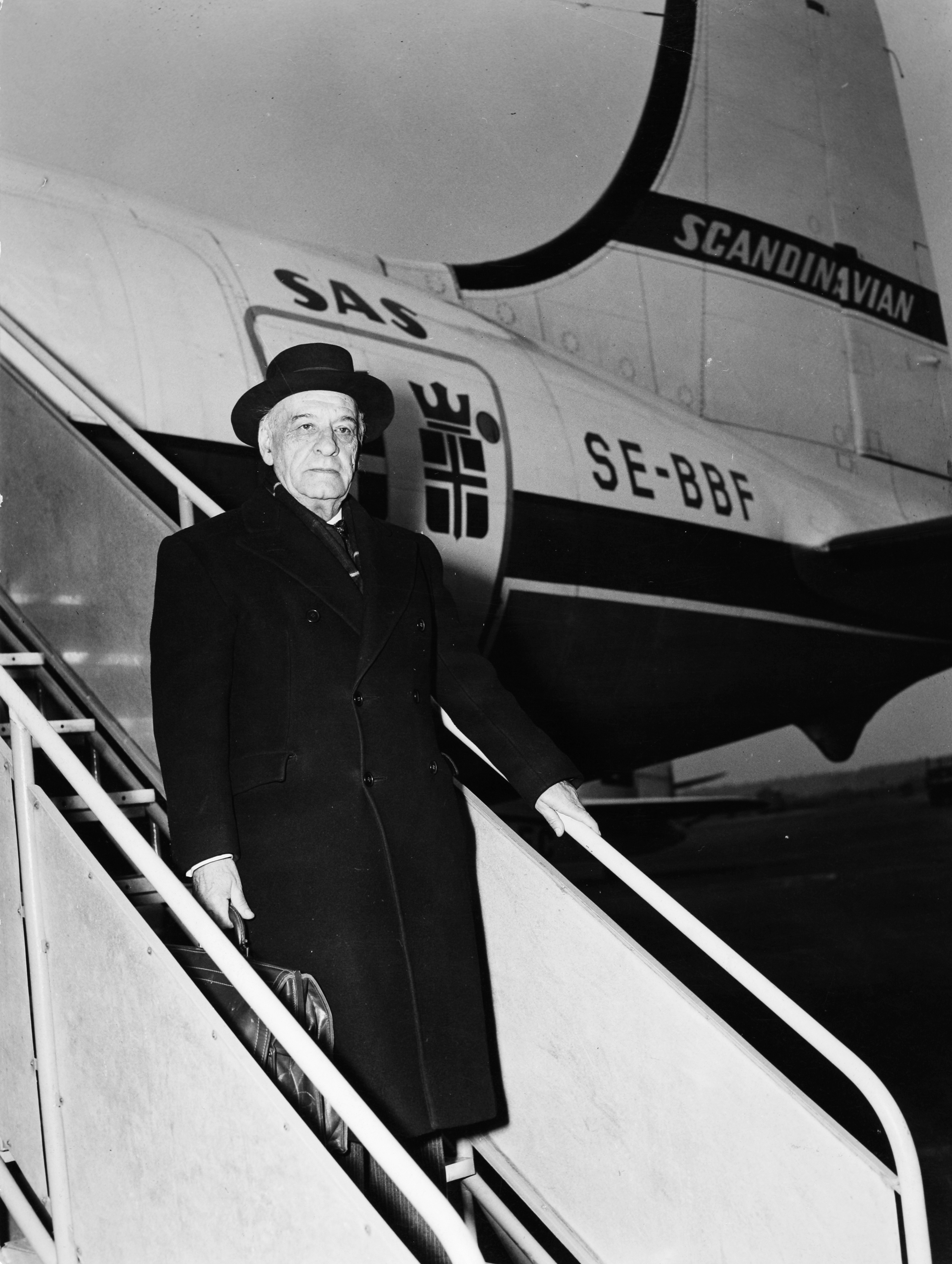 José Ortega y Gasset, Spain. Flow with DC-4, Sverker Viking SE-BBF. 1950s.